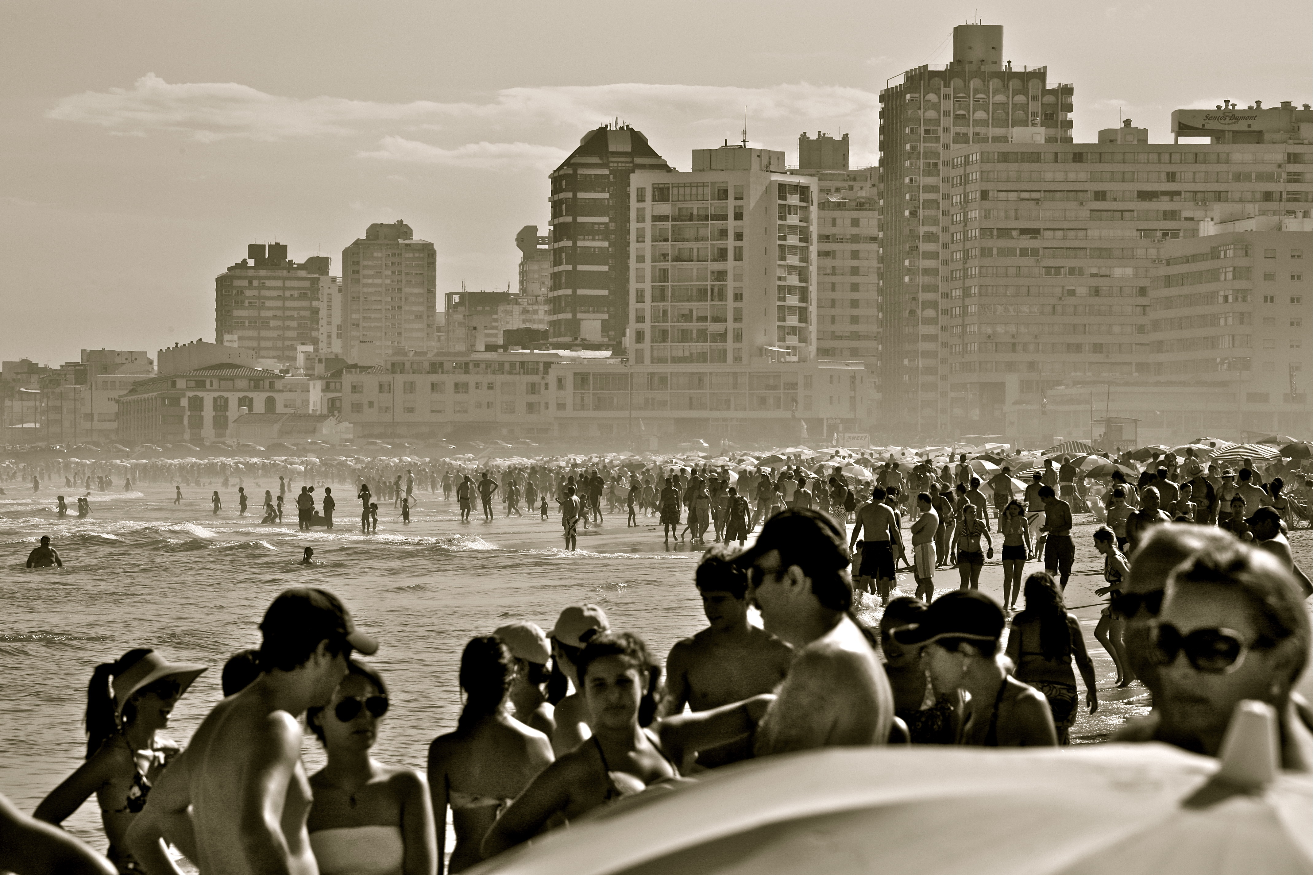 Summer at the Beach